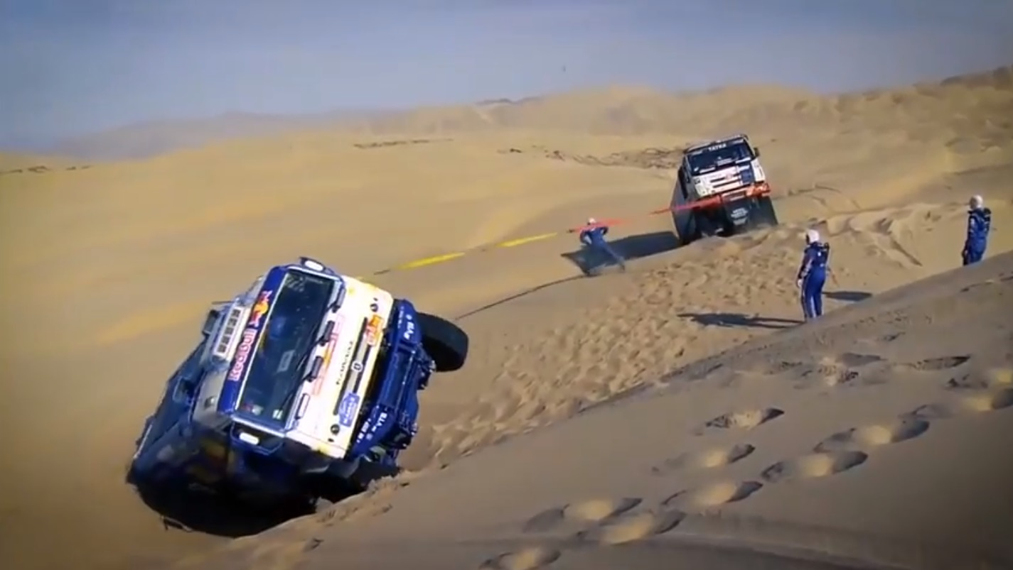 Dakar 2018. Perú. Kamaz truck rollover.